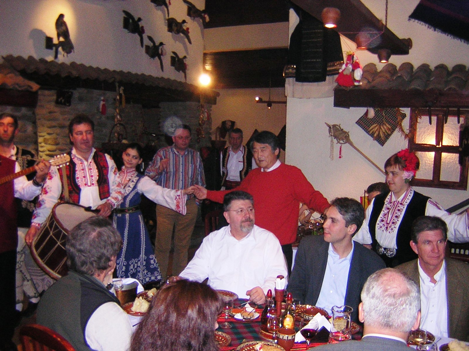 People in a Bulgarian mehana restaurant dancing to folk music.